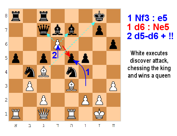 Discover attack in Chess, White (MathKnight) wins a queen